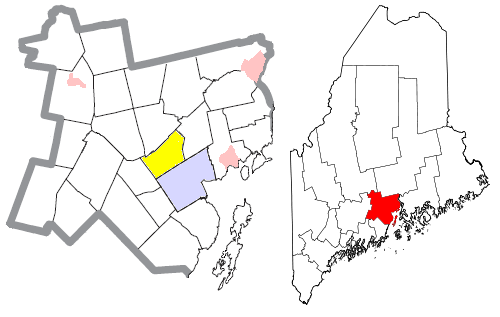 Map of the divisions of Waldo County, Maine, United States, with the town of Waldo highlighted in yellow. The city of Belfast is light blue; other towns are white; and pink areas are census-designated places within towns.